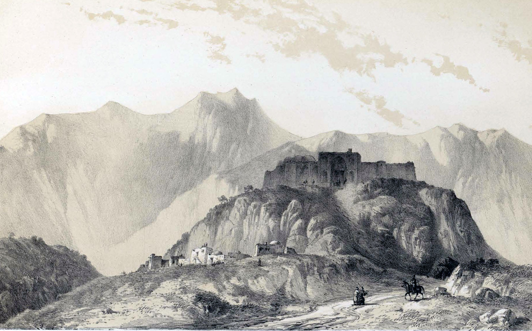 Caravanserai Hambari the foot of Mount Bi Sutoun